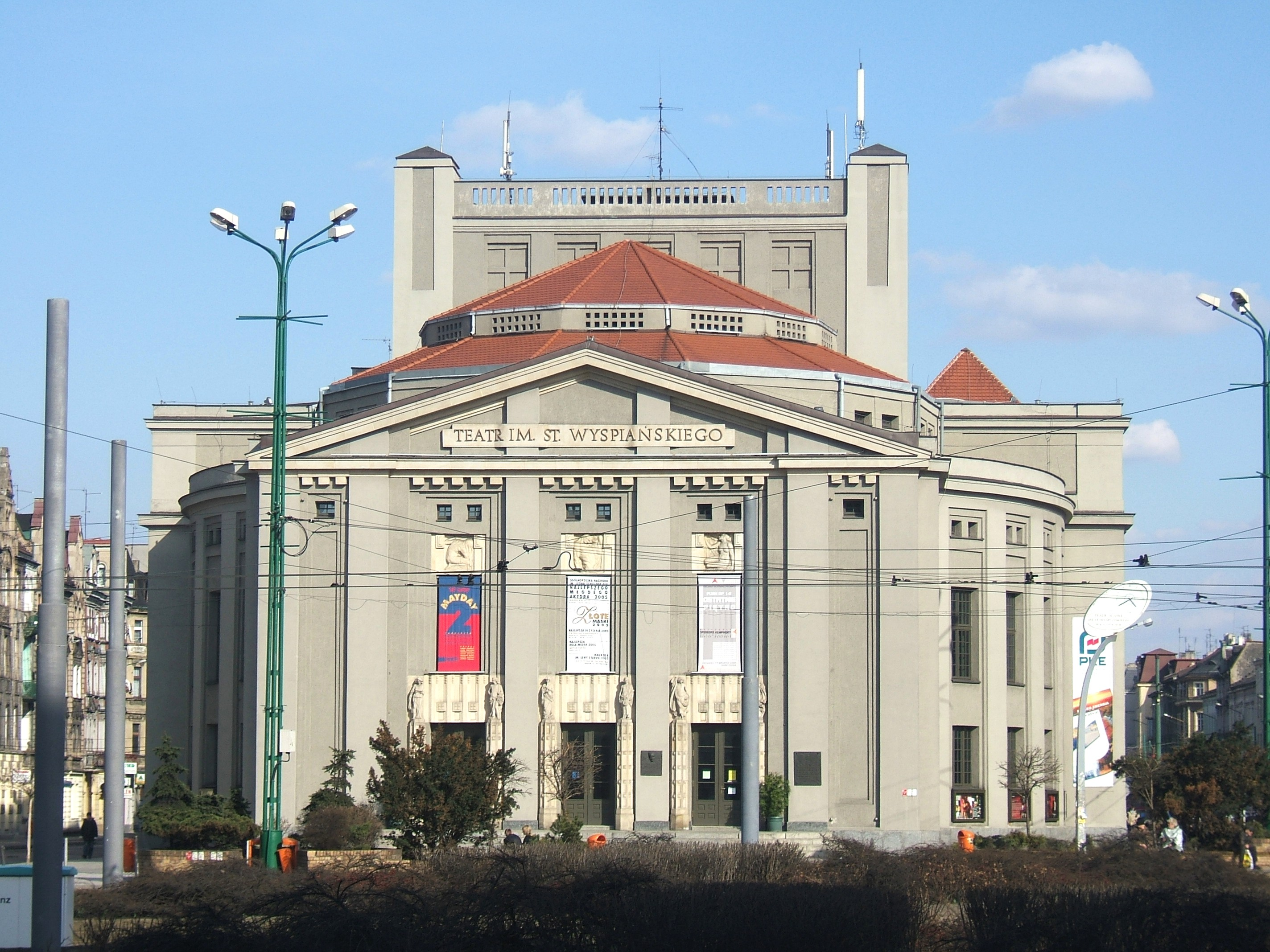 The Silesian Theater (Teatr Śląski im.Stanisława Wyspiańskiego) in Katowice (Carl Moritz 1905-1907).